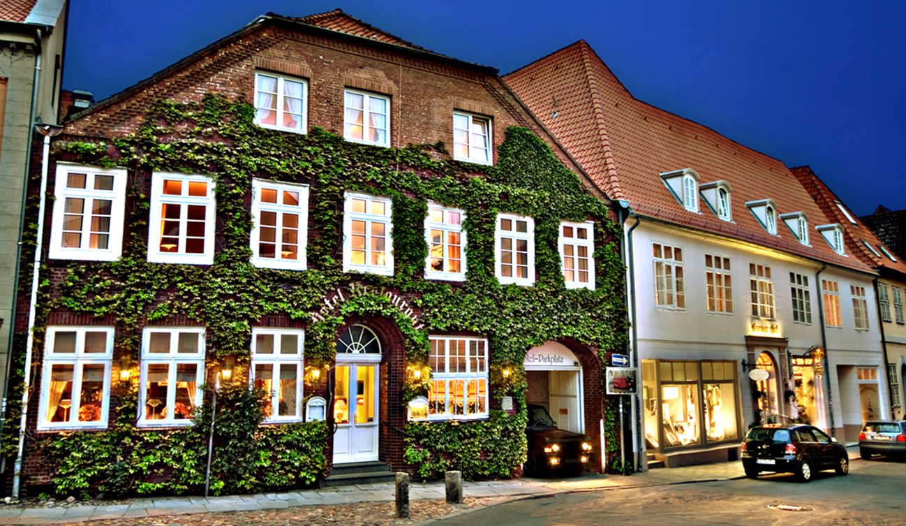 Hotel Bremer Hof (front)